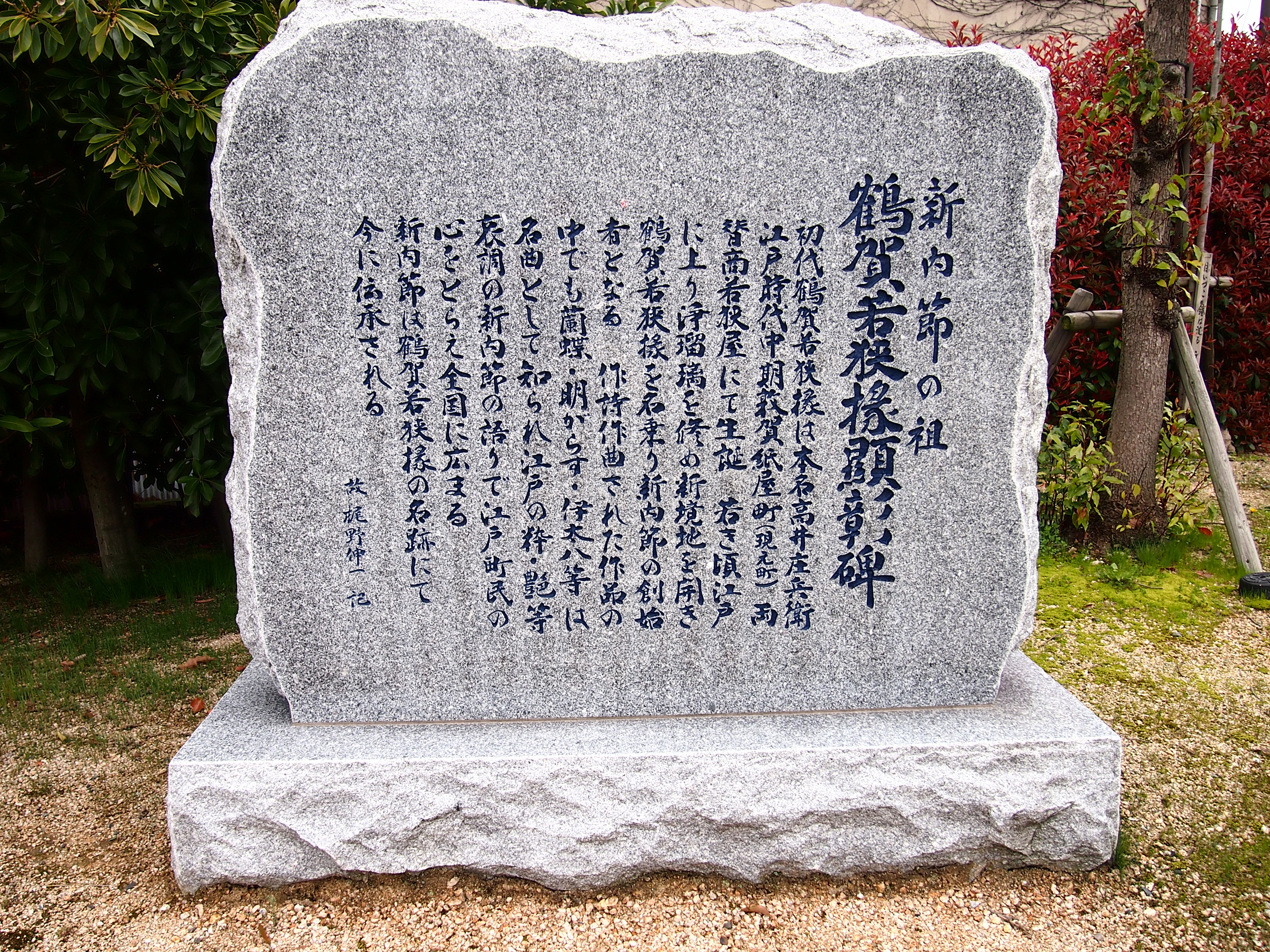 Tsuruga Wakasanojo is a traditional Japanese musicians, his honoring monument located in Kagura-cho Tsuruga, Fukui Prefecture , a birthplace.